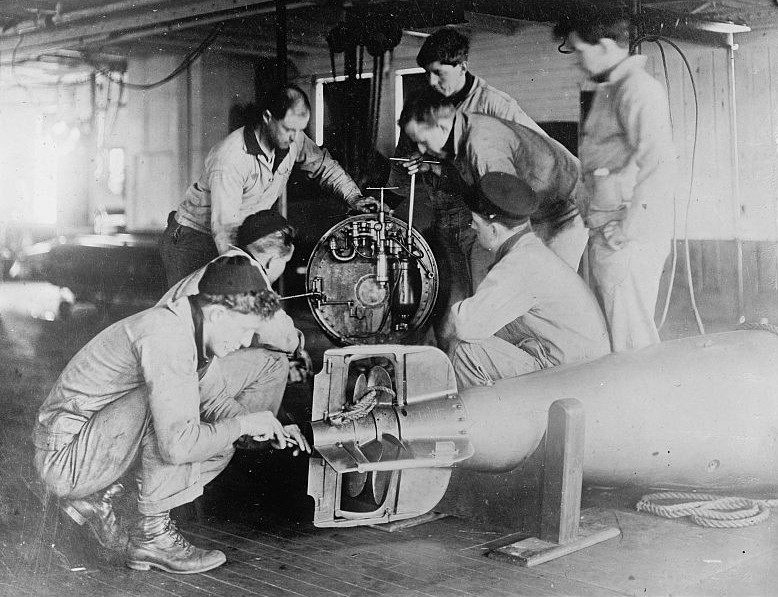 Whitehead torpedo, ca. 1908-1919